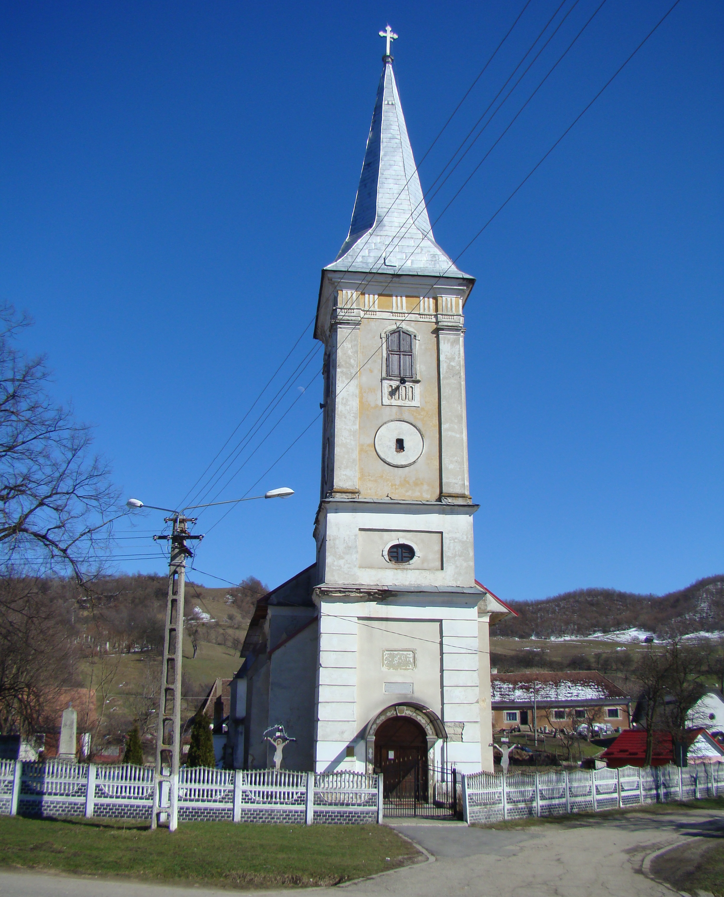 Lutheran church in Slătinița, Bistrița-Năsăud County, Romania